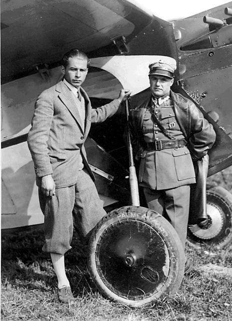 Stanisław Wigura (1903-1932) Polish aircraft designer and aviator, co-founder of the RWD aircraft construction team and Franciszek Żwirko ( 1895 - 1932), prominent Polish sport and military aviator. Their both won the international air contest Challenge 1932.